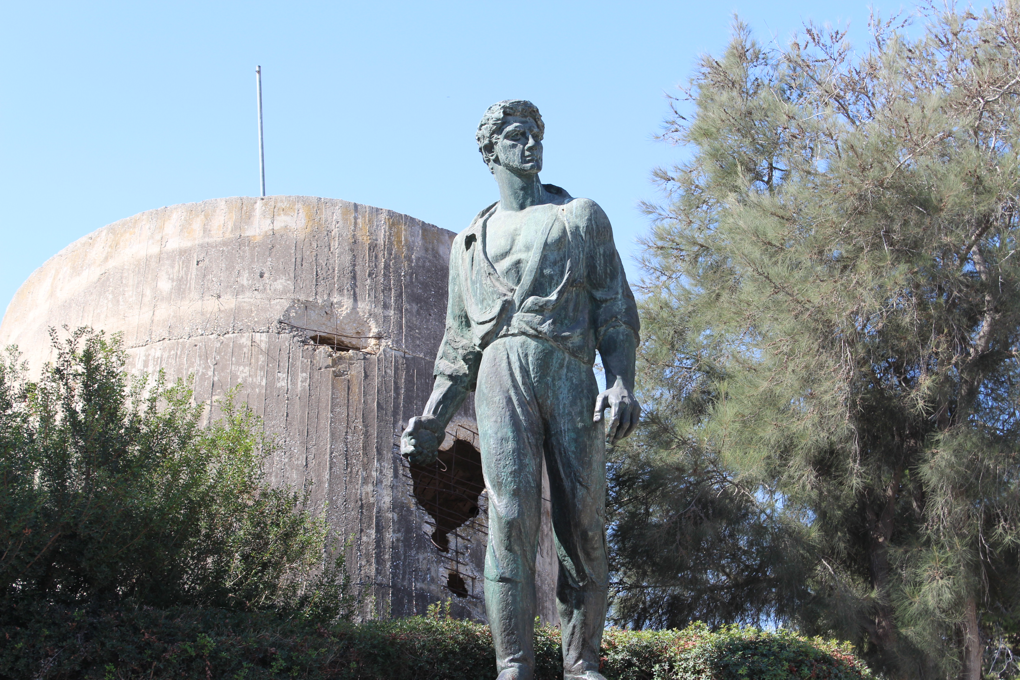 Yad Mordechai kibutz, Israel